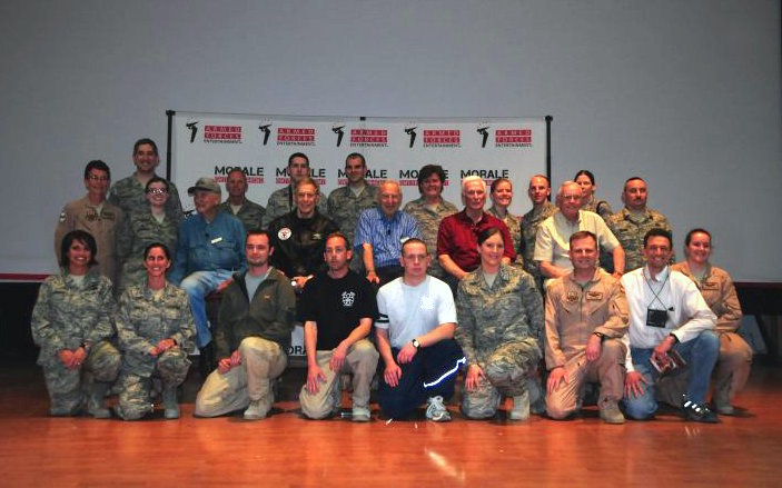 middle row Edwin "Buzz" Aldrin (6th from right), Jim Lovell (4th from right), Gene Cernan (3rd from right), Neil Armstrong (2nd from right), with U.S. Air Force members in Kuwait during a USO visit